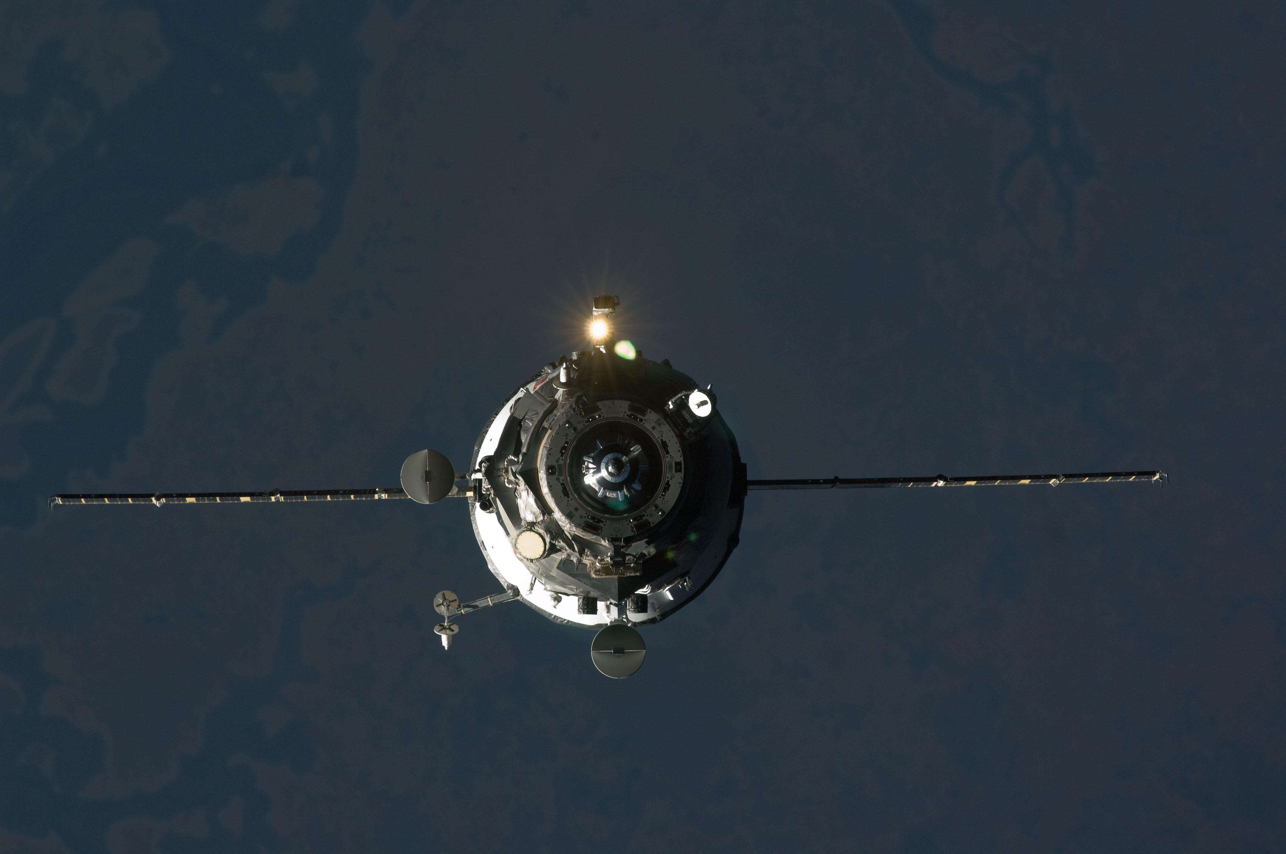 Progress 33 docking to ISS